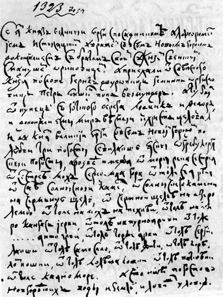 Original text Treaty of Nöteborg 1323 year.